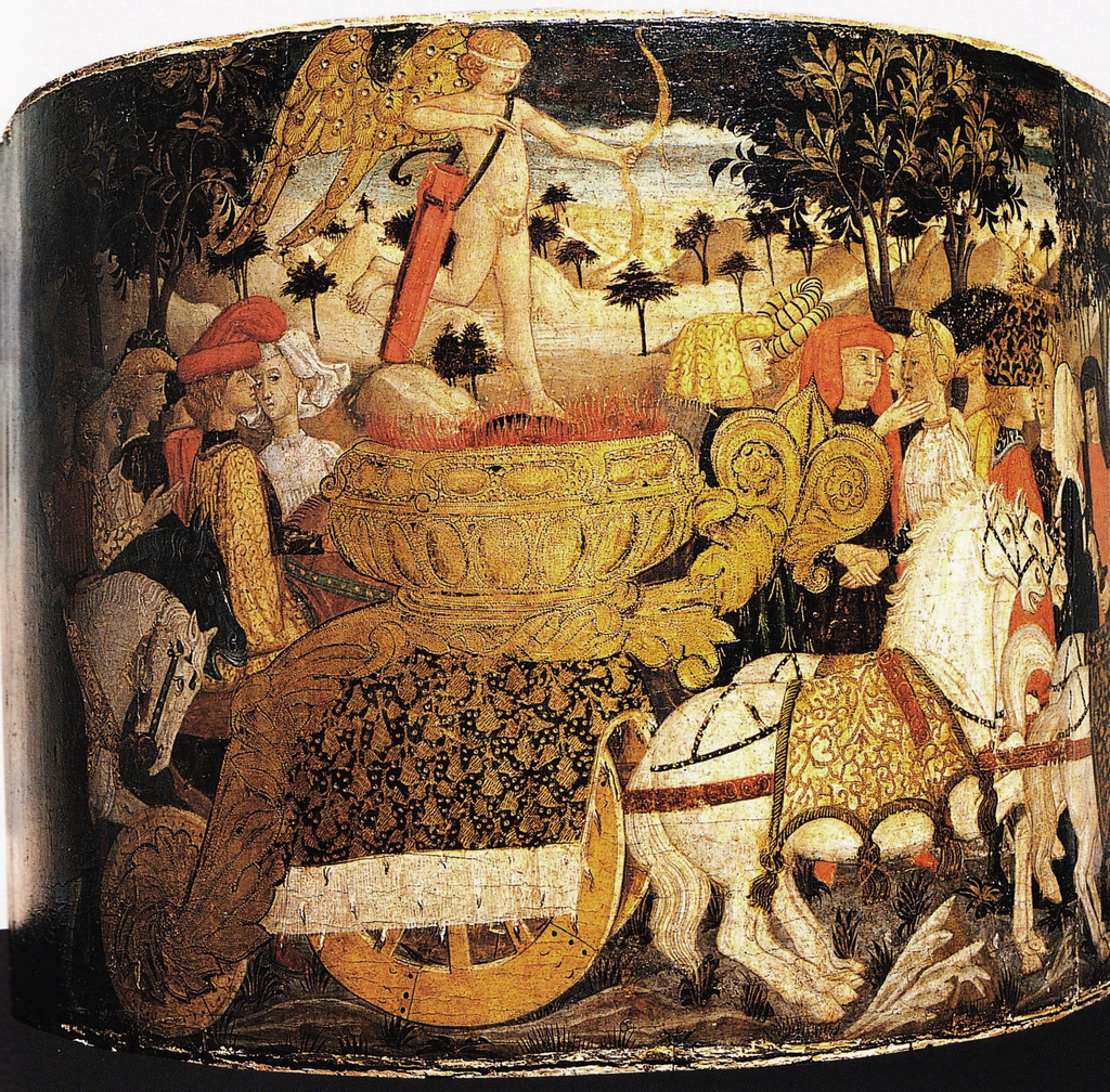 Lo Scheggia, Trionfo dell'Amore, XV c., Museo di Palazzo Davanzati, Firenze